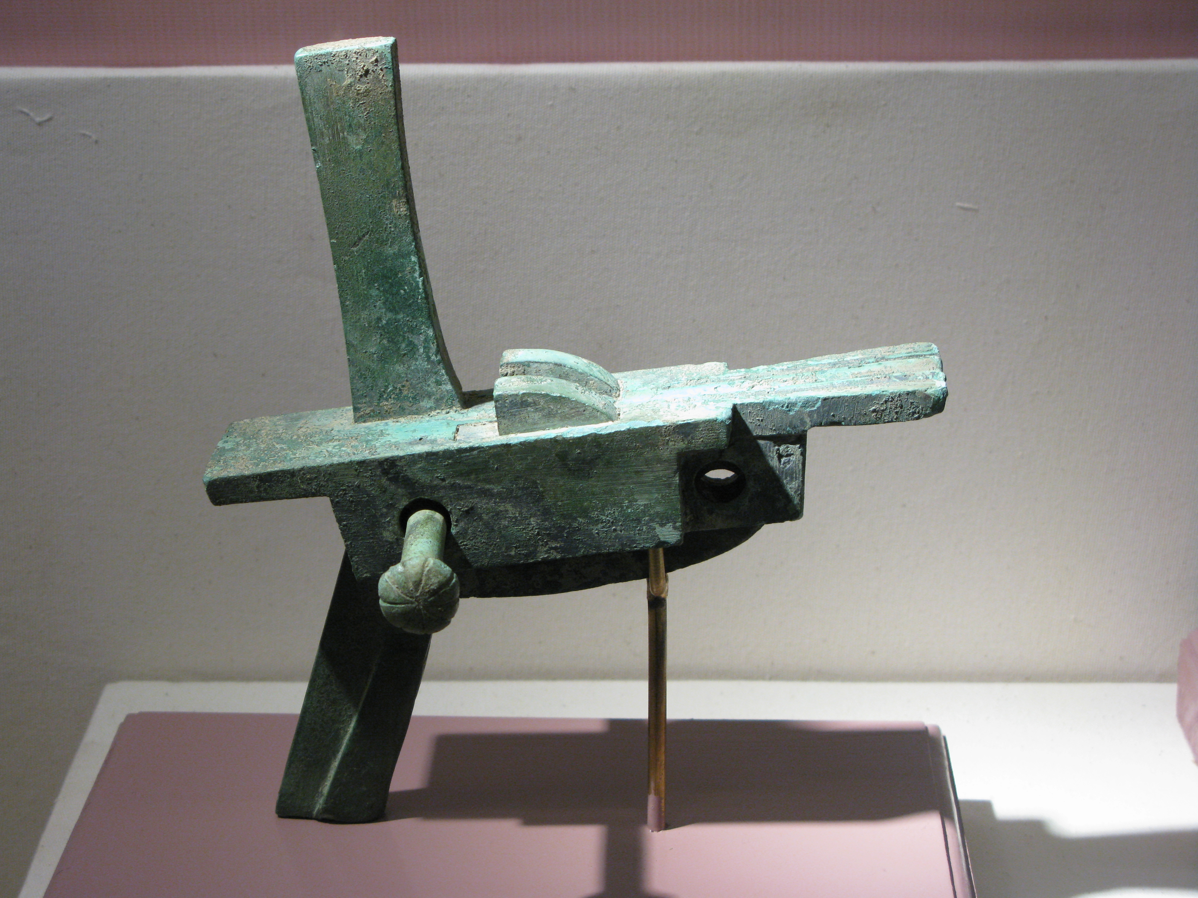 The trigger portion of a Dong Son crossbow dating from 500 BCE-0.